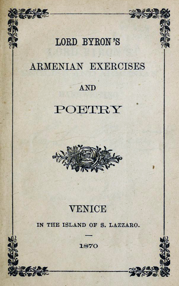 Lord Byron's Armenian exercises and poetry, Venice, in the island of S. Lazzaro, 1870